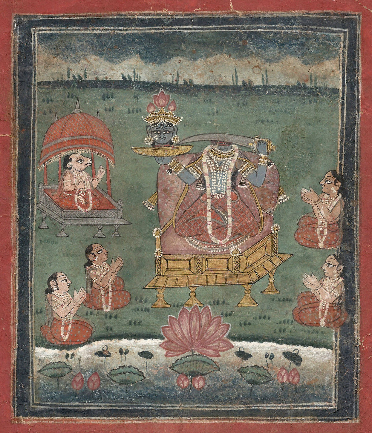 "This beautiful work of art is an hand made unique and ancient traditional miniature painting from the Bundi School (one of the most prestigious school of the traditional art of Rajasthan in India). This is an original painting, not a copy, painted more than 238 years ago around year 1775. It measures 6,3 x 7,87 inches (16 x 20 cm) for the painting itself, not including painted frame. This painting was done with opaque water color made with natural pigments from different stones and real gold, on hand-made paper. It represents the goddess chinnamasta with severed head. This is a tantra based subject. Mostly this goddess depicted in fierce form but here she is depicted in a benign form, sitting on a golden throne wearing red and orange dress holding a sword in her left hand, in the right hand her own severed head with lotus crown and opened third eye on forehead from which comes lightning of direct perception that destroys all duality and negativity. Devotees sitting both side and praying, in background a special character appear with head of ram and human body, quite possible its an icon of ego In humans. A big lotus in the pond is symbol of wisdom and purity."